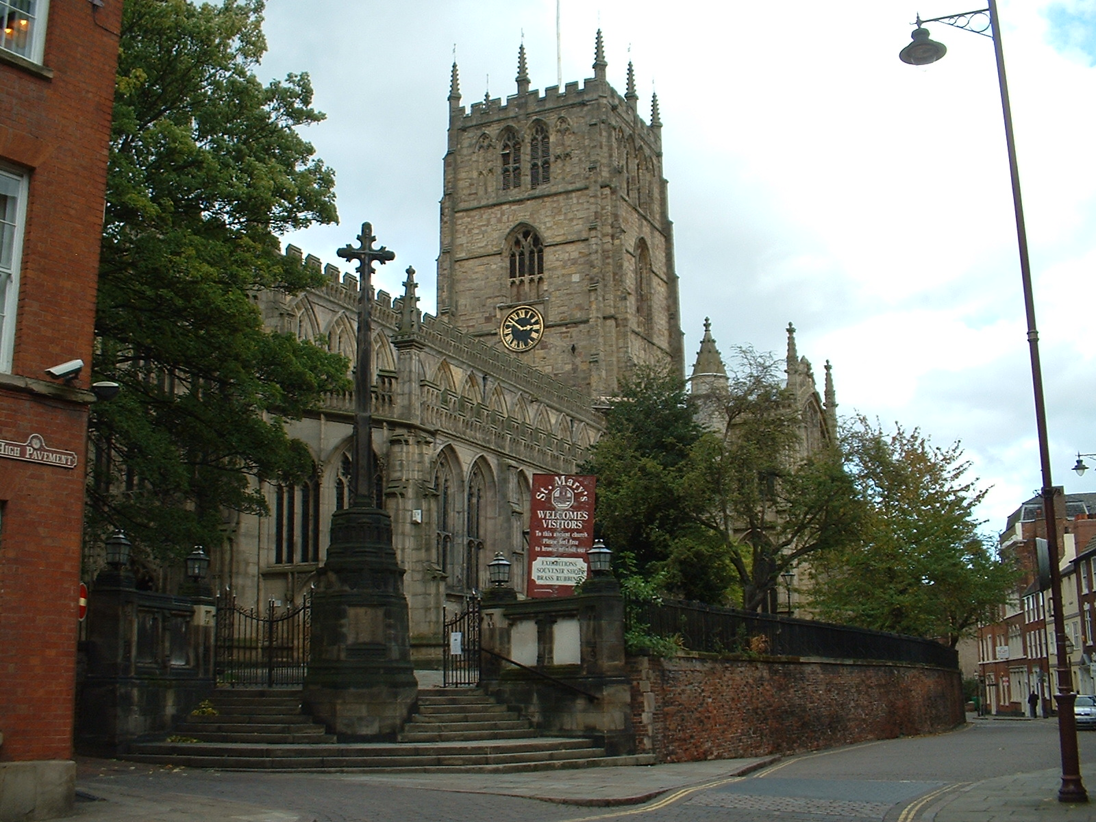 St. Mary's Church, England. Taken by Necrothesp, 25 October 2005.